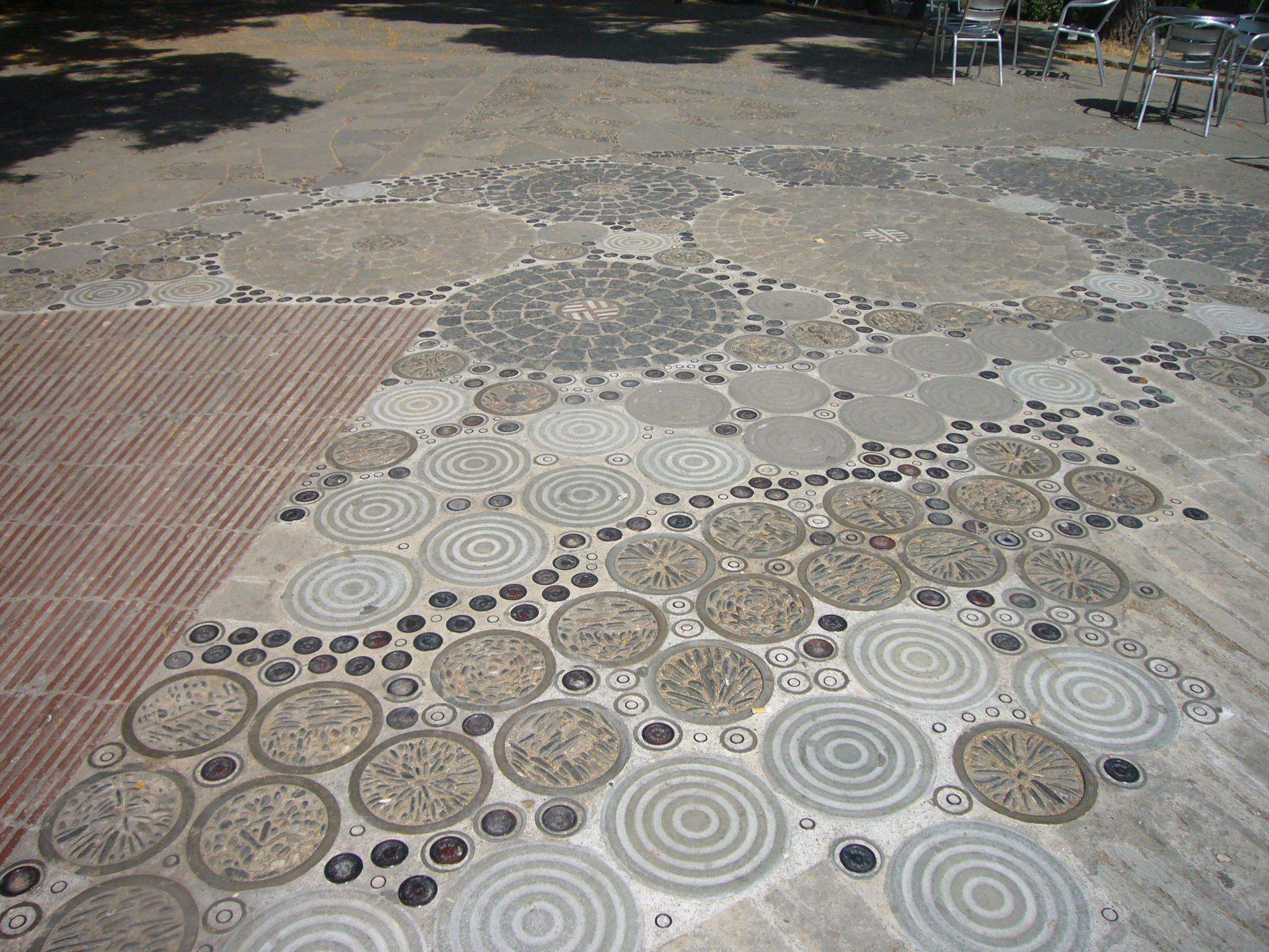 Gardens "Mirador de l'Alcalde" in Montjuïc, Barcelona.